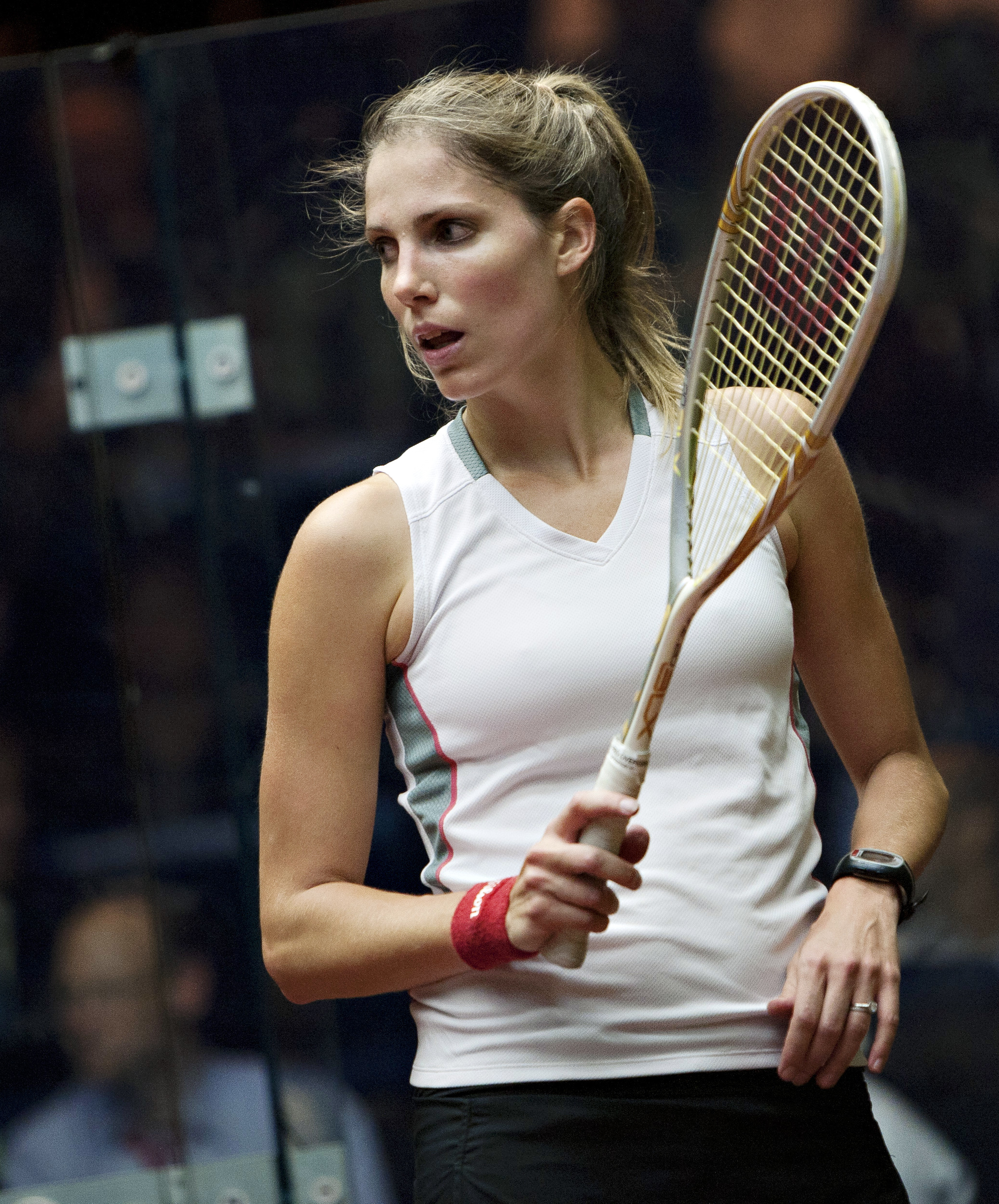 J.P. Morgan Tournament of Champions Squash 2012, from Grand Central Terminal, New York, NY on January 25. Dipika Pallikal (India) defeated Jaclyn Hawkes (New Zealand) in the women's semifinals.